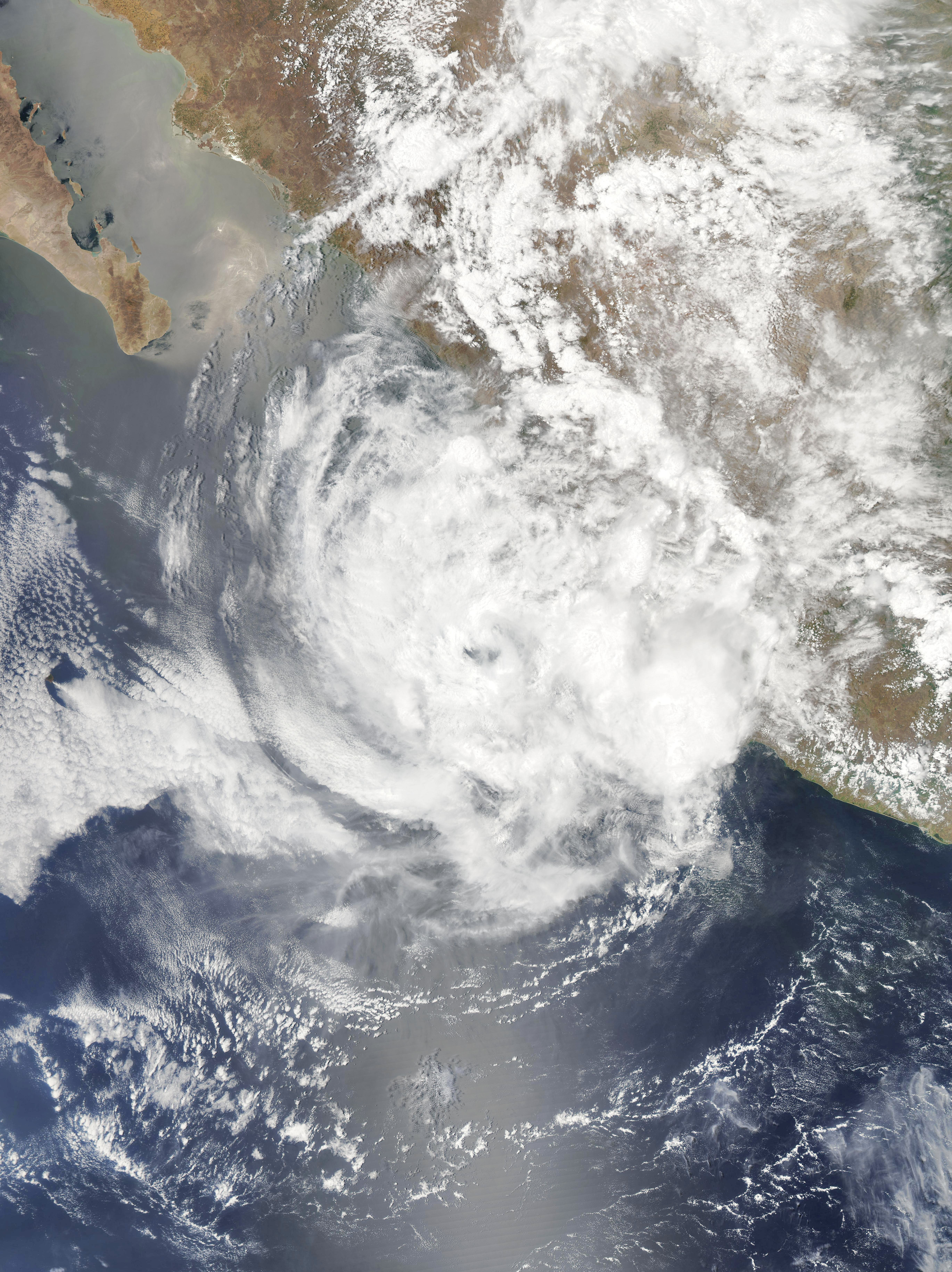 Hurricane Bud on May 25, 2012